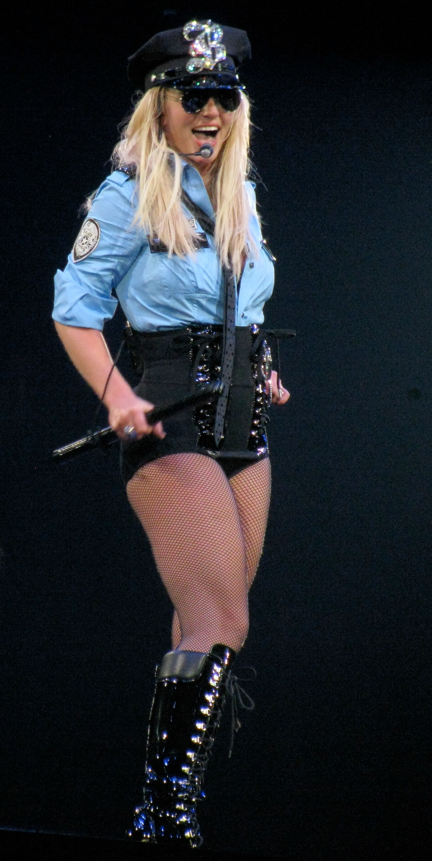 Perfroming Womanizer At Montreal